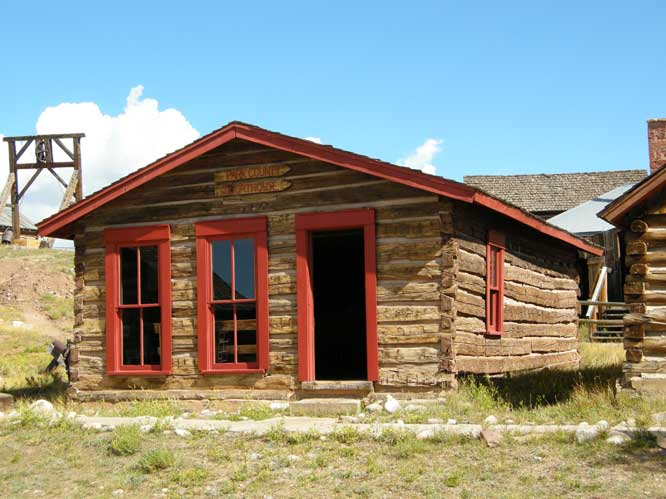 First county courthouse of Park County, Colorado, now in Fairplay, CO